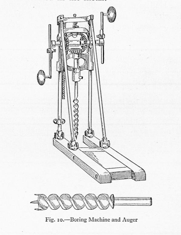 Timber framer's hand-cranked boring machine